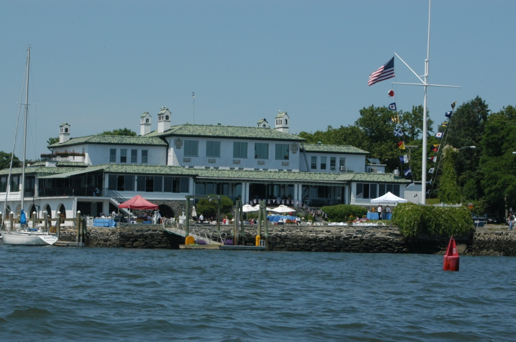 Photo Indian Harbor Yacht Club Today